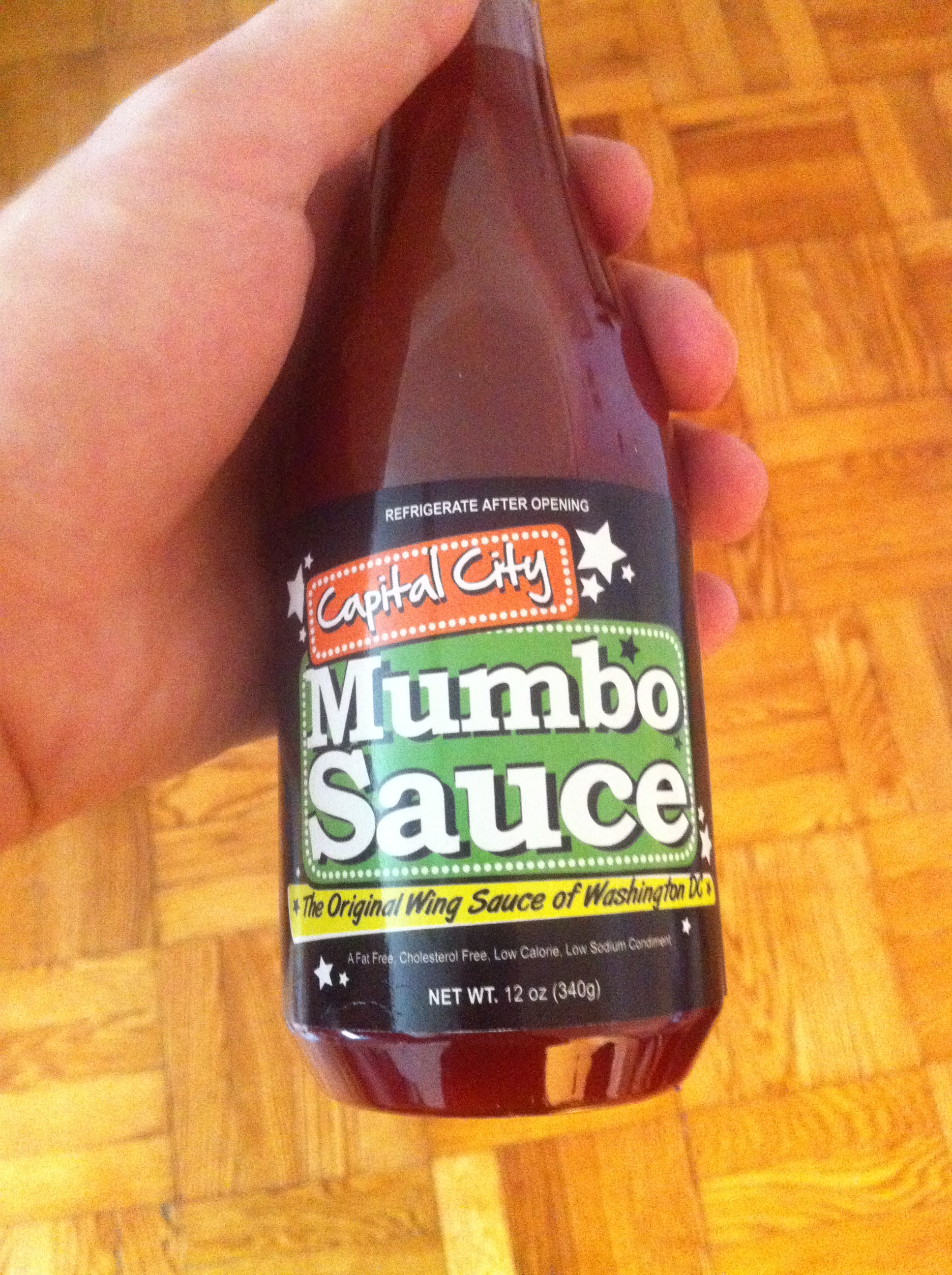 A bottle of Capital City Mumbo Sauce from the Washington, DC area.